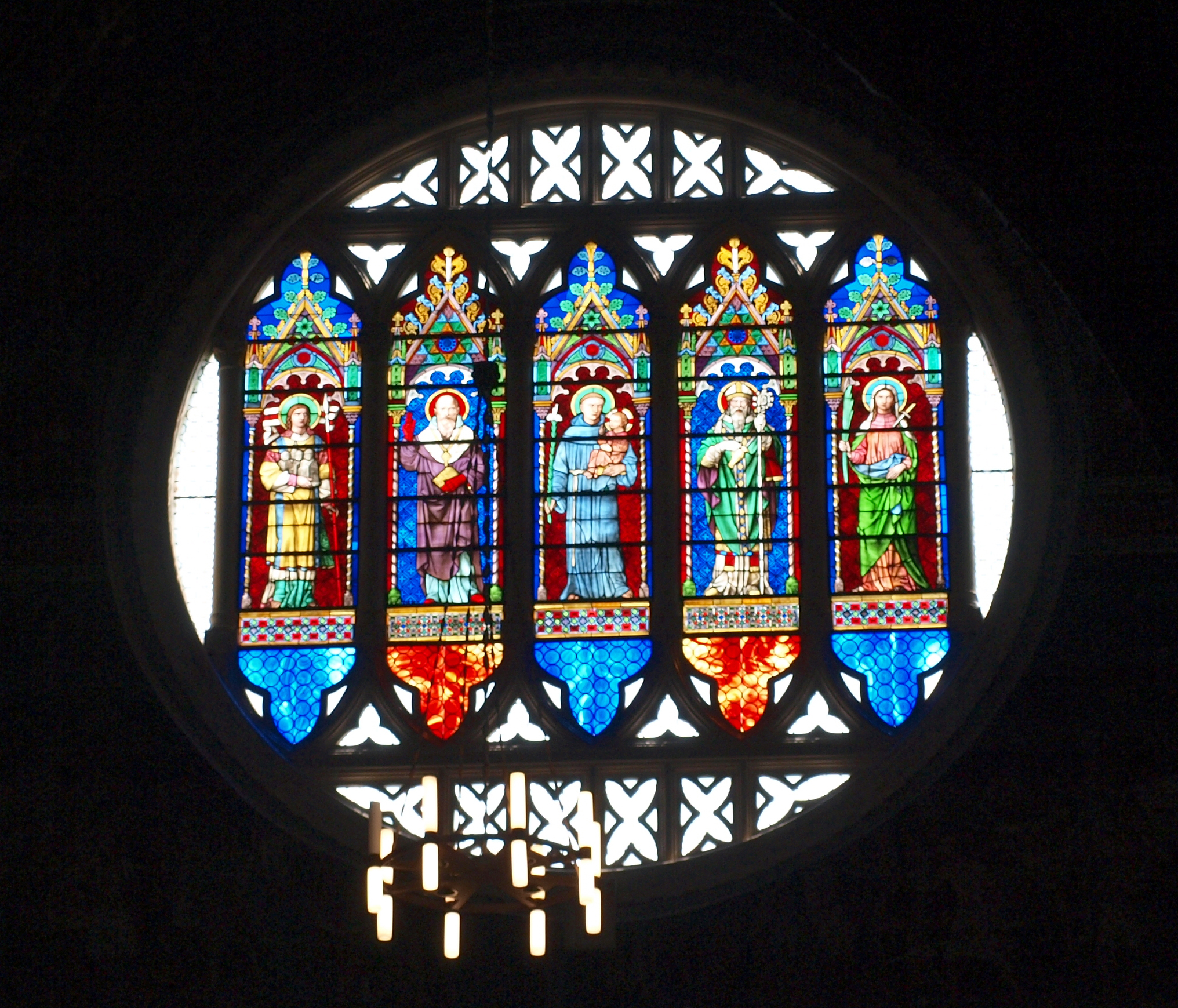 Stained glass window in basilica Sant'Antonio (Padua), Italy.